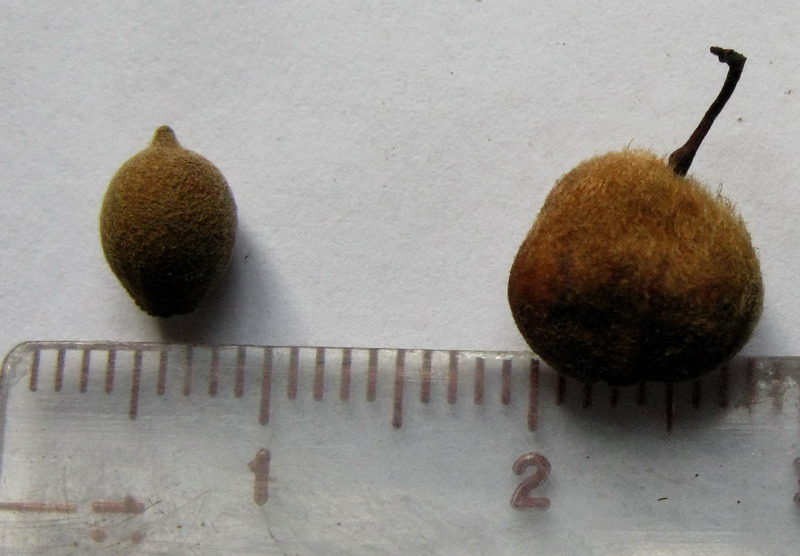 Fruit of siberian Lime - Tilia sibirica (left) in comparison with fruit of Nasczokin's Lime - Tilia nasczokinii(right).